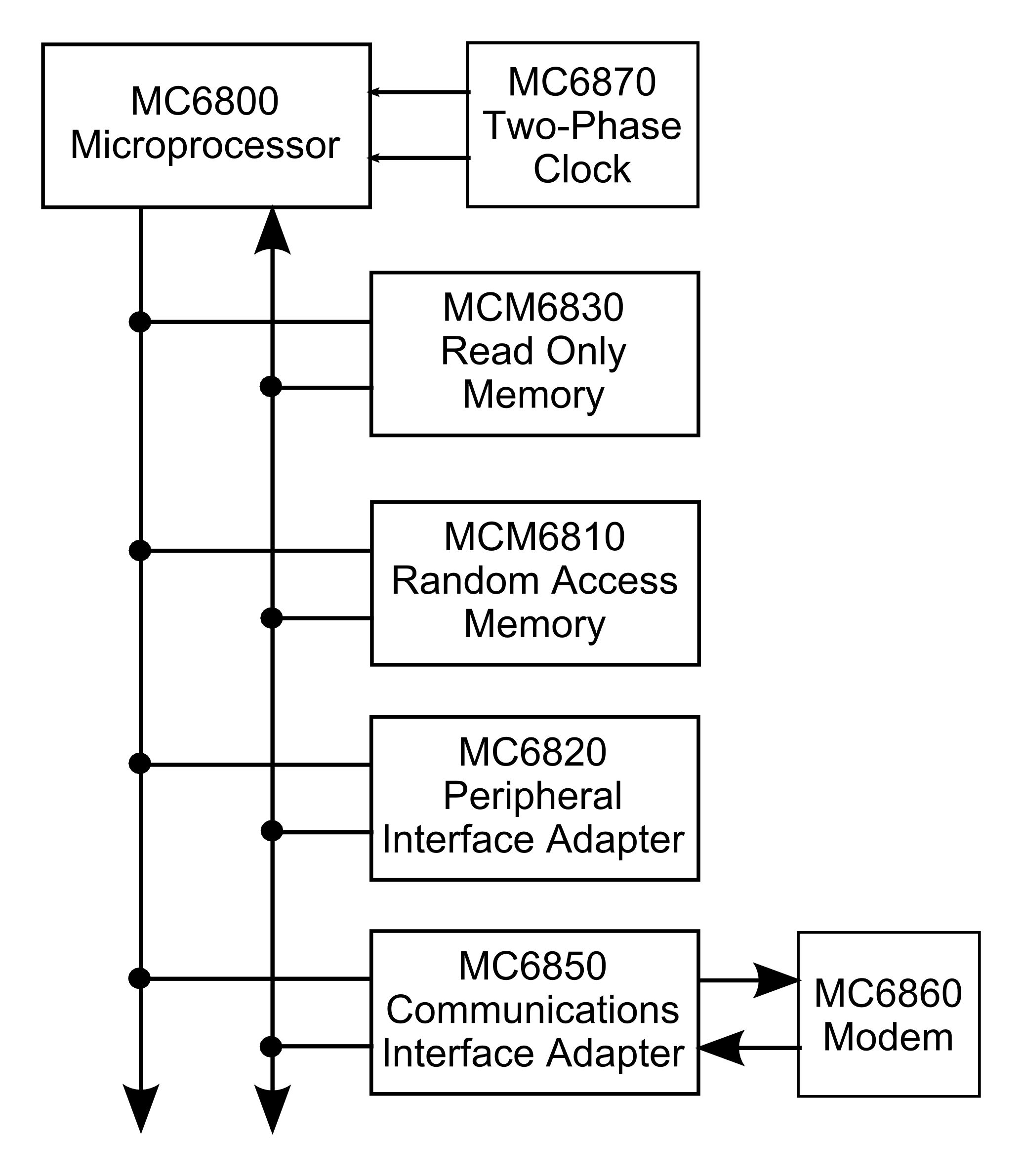 A small Motorola M6800 microcomputer system. Based on a diagram in MC6800 Systems Reference and Data Sheets by Motorola Semiconductor Products Inc., May 1975.